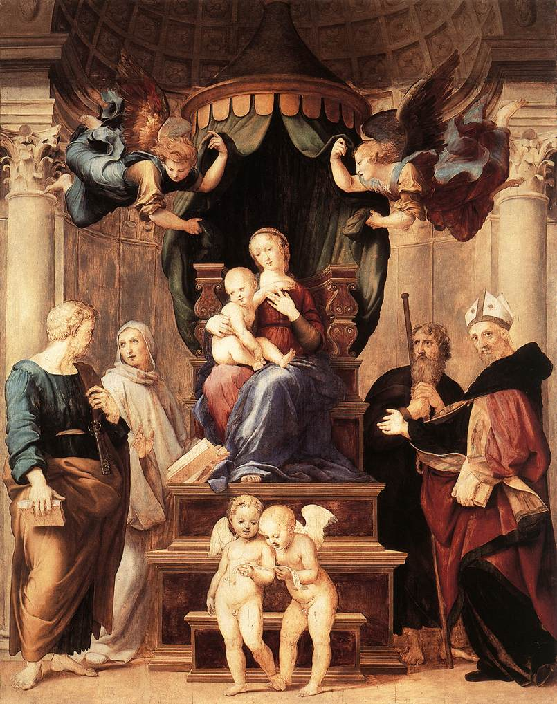 Madonna del Baldacchino, 1507 - 1508, oil on canvas, 276 x 224 cm, Galleria Palatina (Palazzo Pitti), Florence